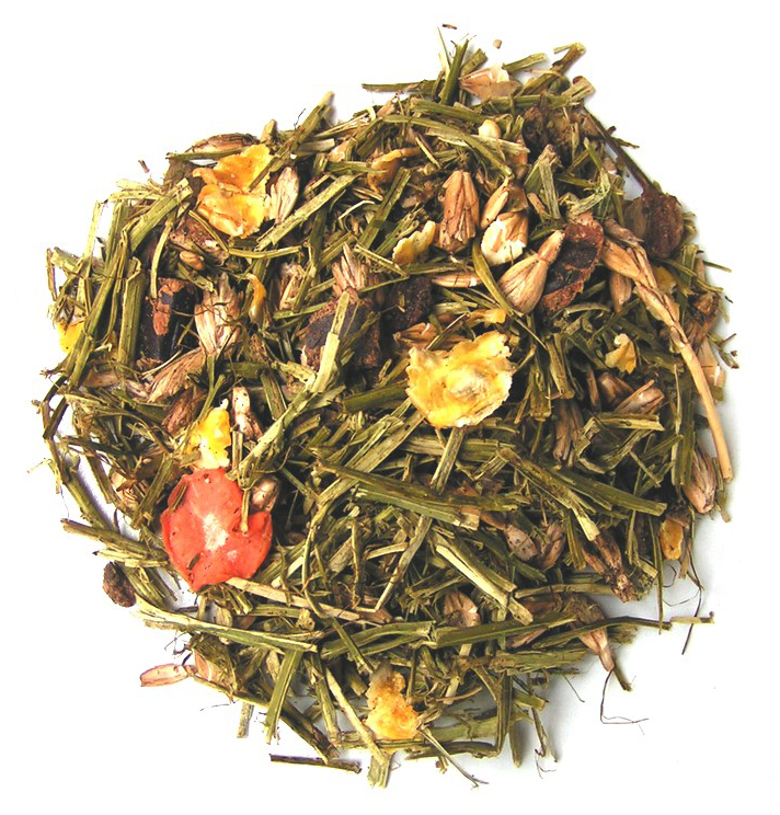 Structured feed